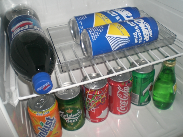 君怡酒店 (澳門), Grandview Hotel, Macau Author= Mo707